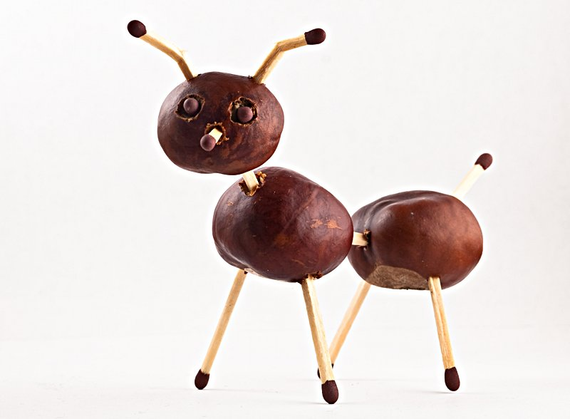 Animal made from horse-chestnuts and matches.